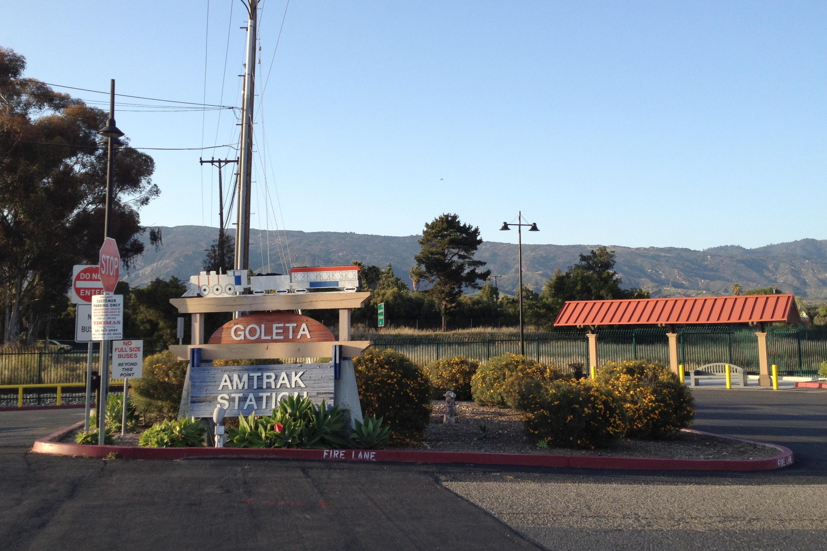 Sign at the Amtrak station in Goleta, California.